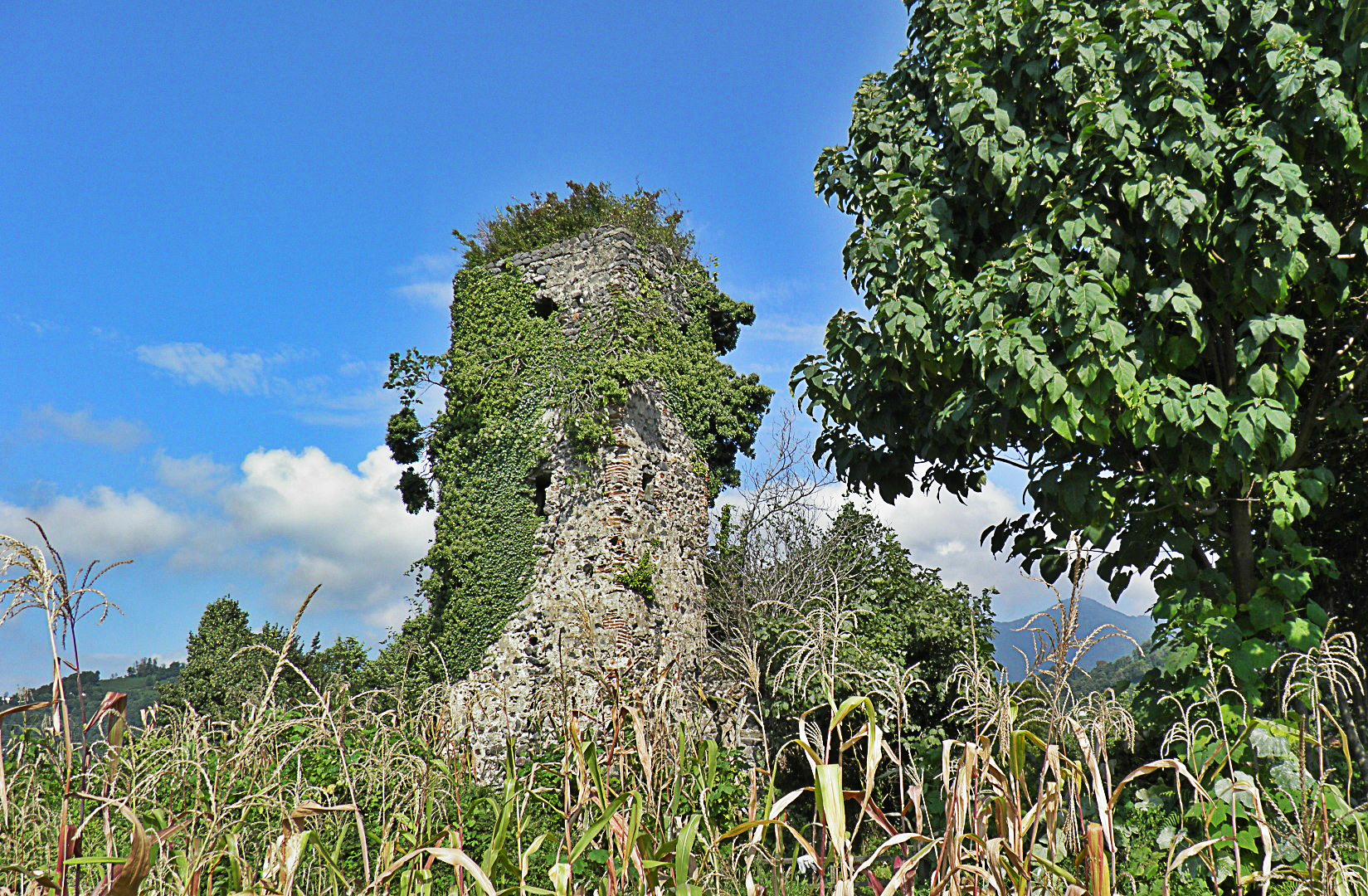 Makriali (Noghedi) Saint George Georgian orthodox church, Lazeti province / Kemalpaşa, Hopa district, Turkey